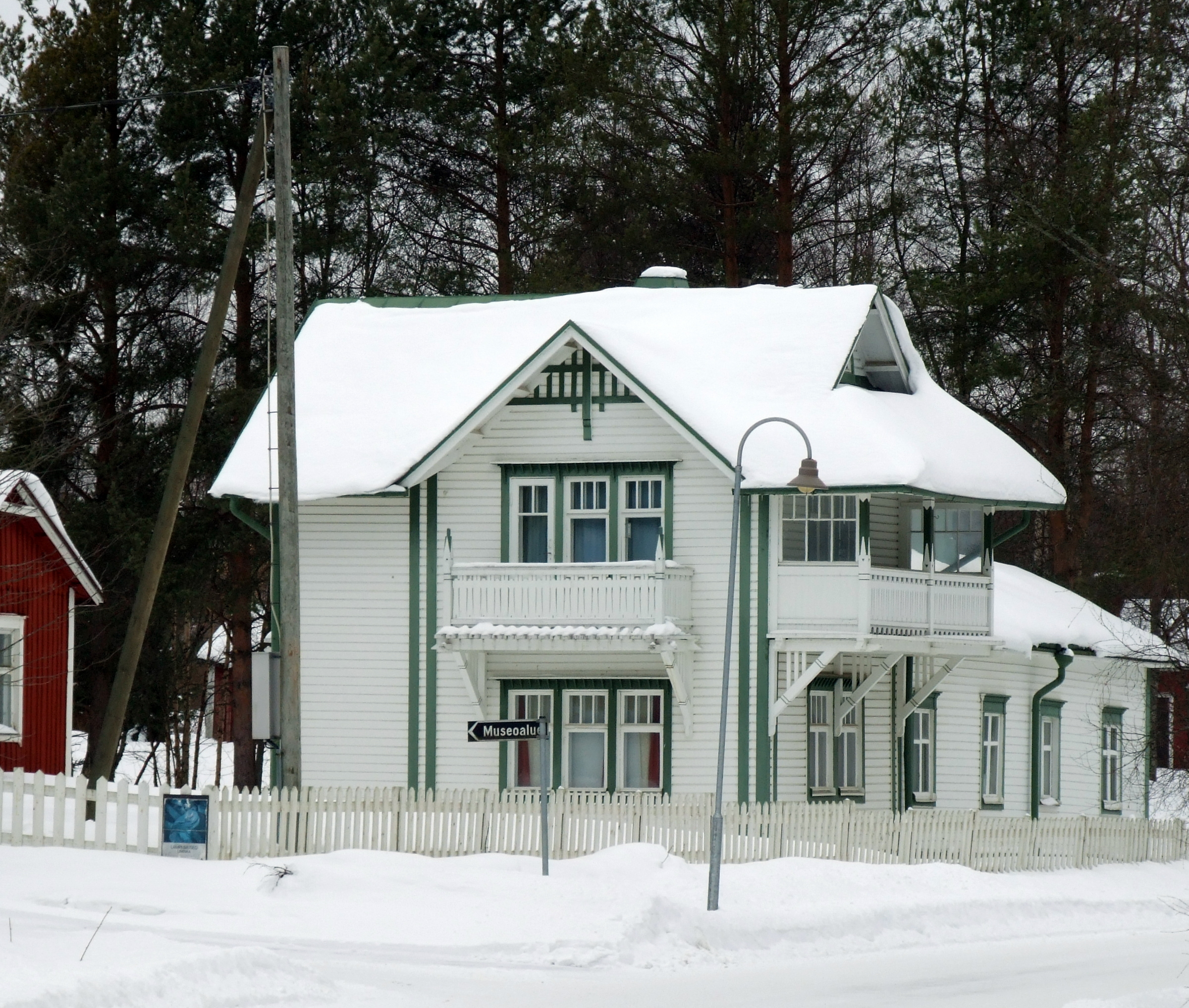 Memorial house Aappola is villa and home of Finnish operasinger Aabraham Ojanperä. Museum was founded in 1917.